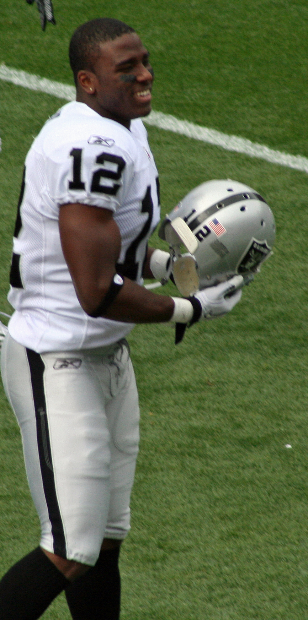 Jacoby Ford, a player on the Oakland Raiders American football team.